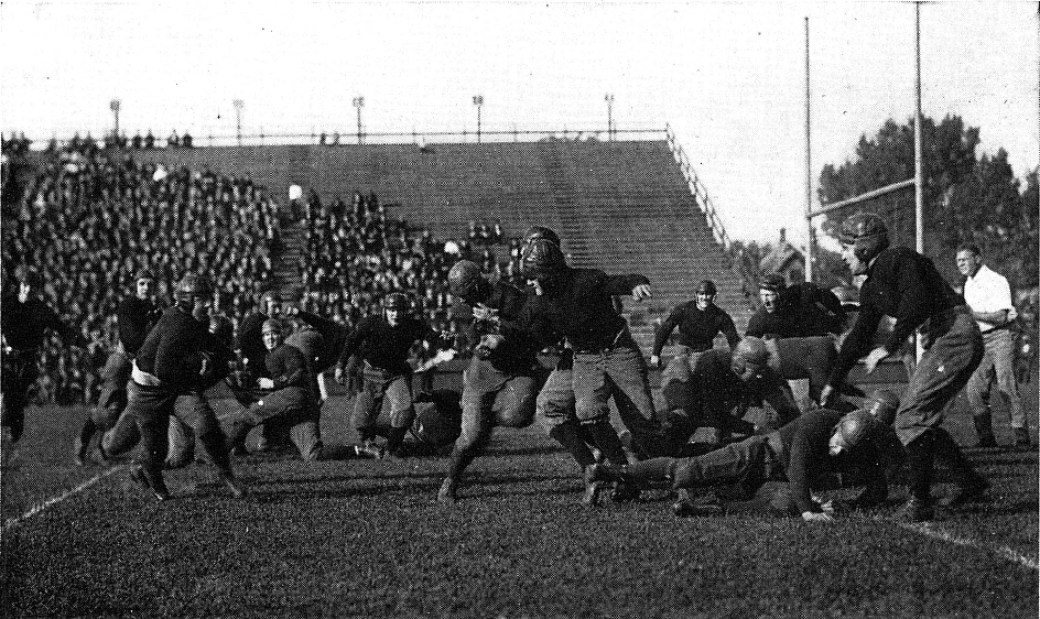 Photograph of Eddie Usher cutting across end for a touchdown against Tulane in 1920 while playing for the 1920 Michigan Wolverines football team.